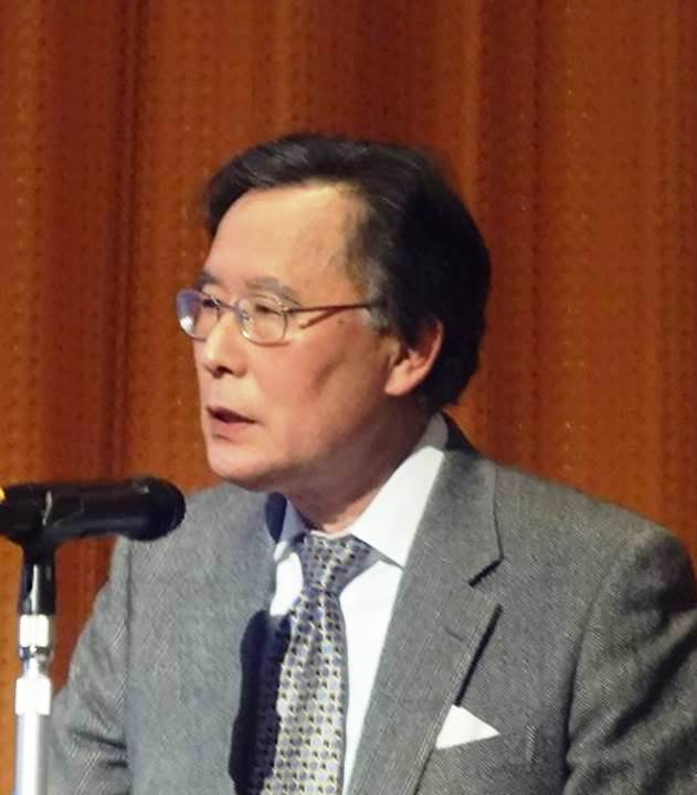 Sukehiro Hasegawa at a symposium on "Diplomats who Saved Jewish People" held at Hosei University in 2012 (Photo by Misa Komine)